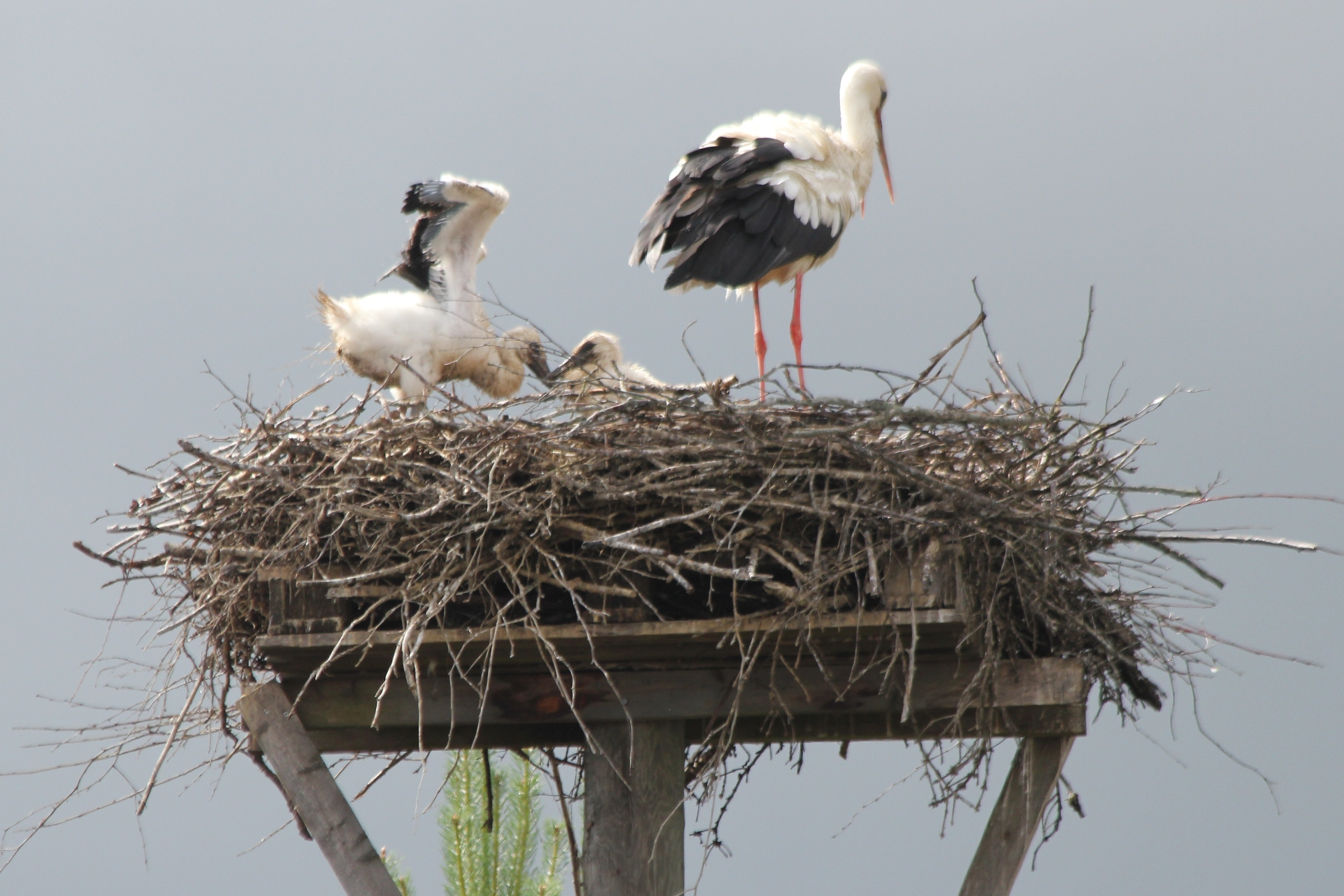 White stork youngs Kinttu and Kontti with their parent.